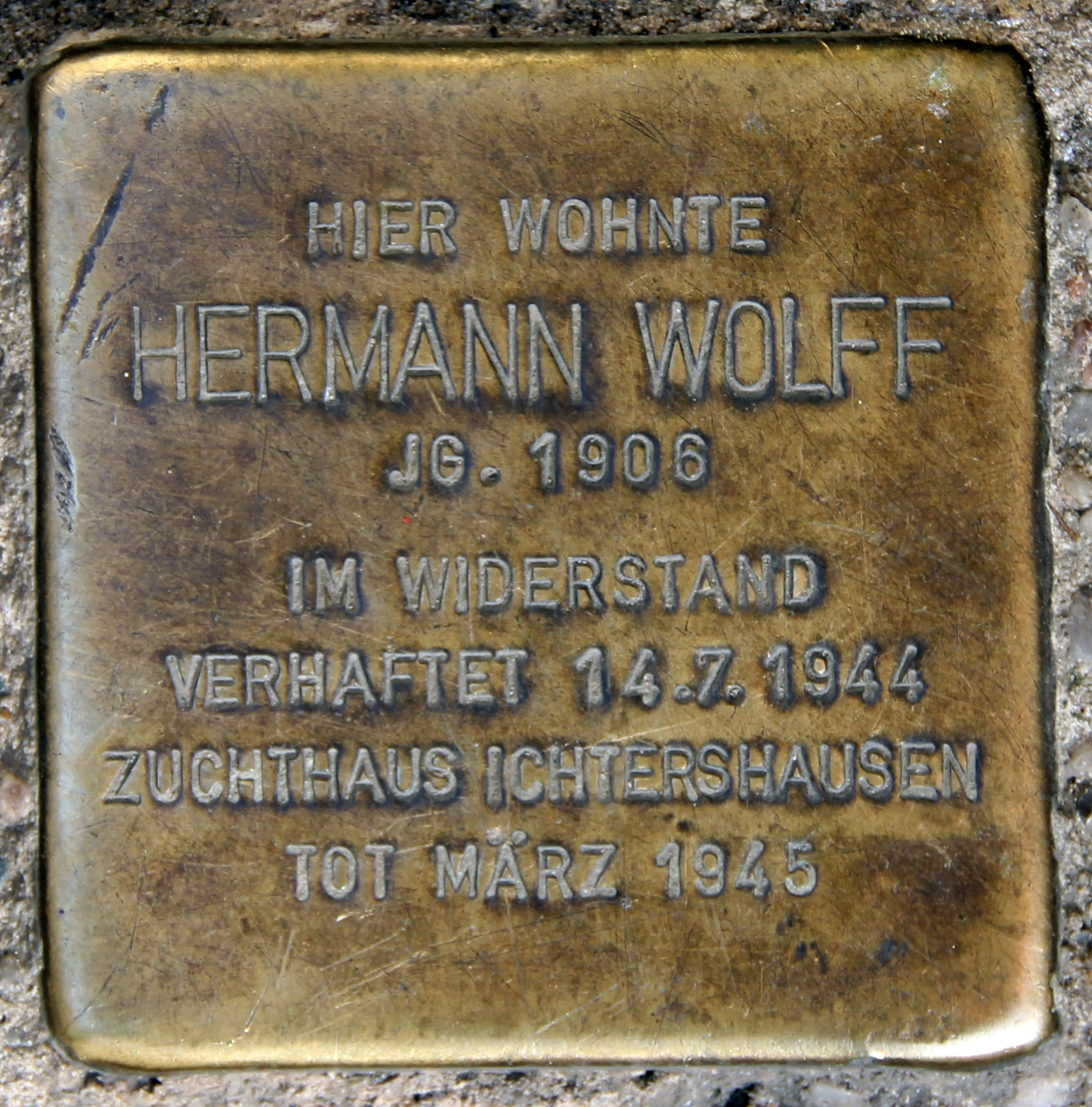 "Stolperstein" (stumbling block), Hermann Wolff, Riemannstraße 4, Berlin-Kreuzberg, Germany